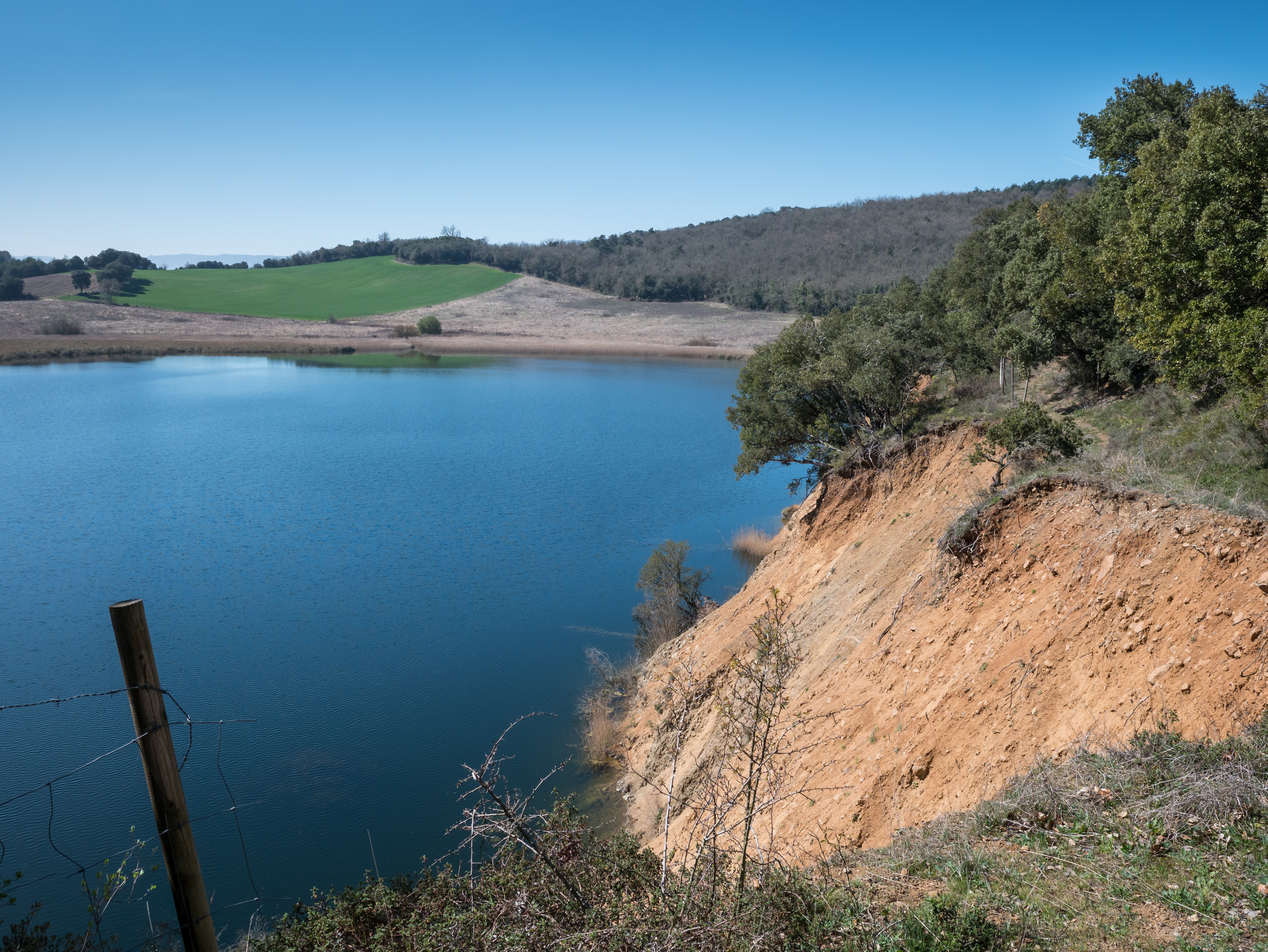 Arreo Lake, the only natural lake of the Basque Autonomous Community. Álava, Basque Country, Spain